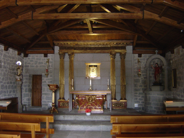 Ermita del Santo Ángel de la Guarda, Chapinería, Madrid.